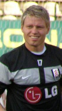 Bjørn Helge Riise training for Fulham F.C.